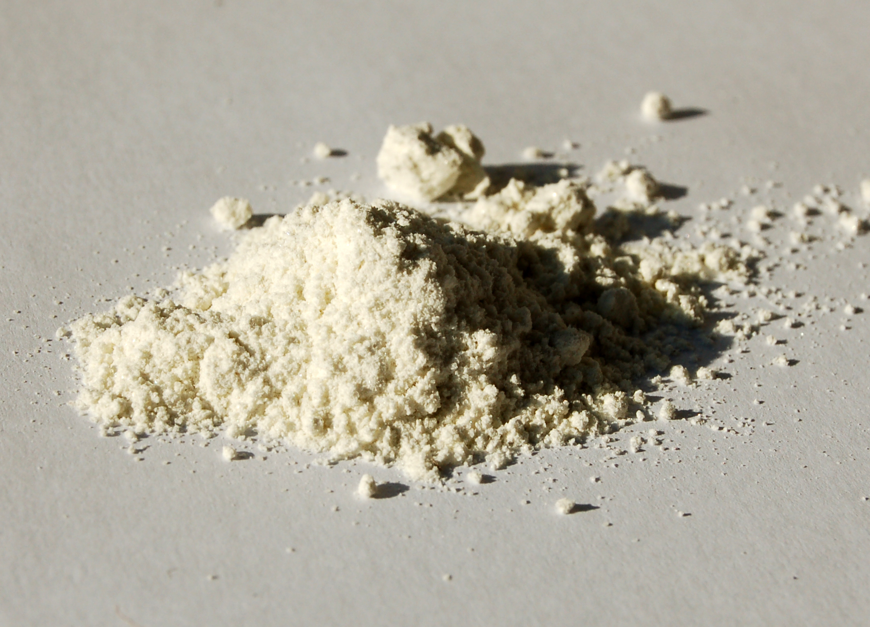 Photo of powdered ammonium metavanadate, NH4VO3